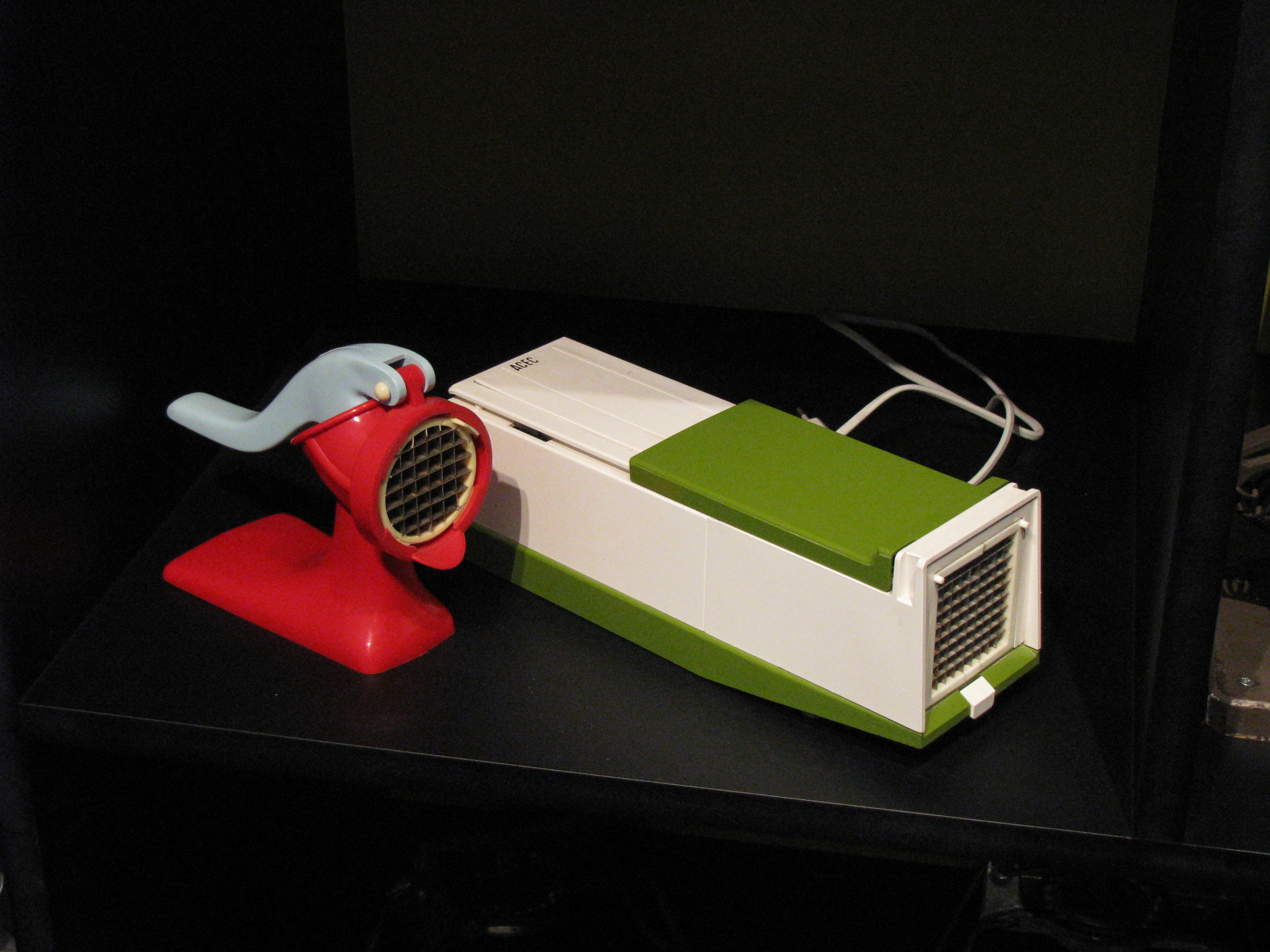 Frietpersen, Frietmuseum, Brugge, Belgium